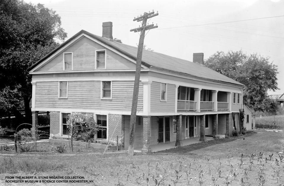 "The old Bushnell's Basin Hotel was a pioneer canal hostelry. Prohibition forced Mrs. John Kossow, the owner, to sell to Charles Dobler of Lancaster, Pennsylvania. Mr. Dobler made the hotel into a private home. The old hotel was standing on this site when the Erie Canal was started in 1825. On Valentine's Day, 1979, it was reopened as a restaurant named Richardson's Canal House at Bushnell's Basin, by Vivienne Tellier and Andrew D. Wolfe. The building pictured has a brick lower level. Brick pillars support the second story, which extends beyond the lower floor at front and back. The central part of the second floor features a covered porch." "Printed in Rochester Herald, July 10, 1922."